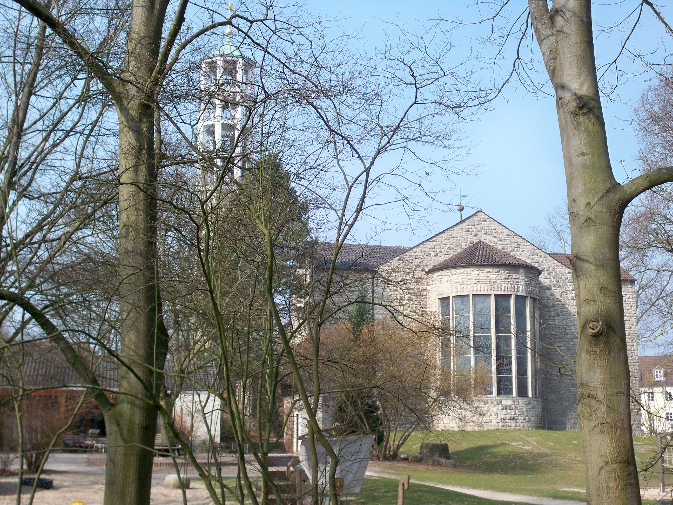 Wolfsburg, Lower Saxony, Christuskirche, view from east